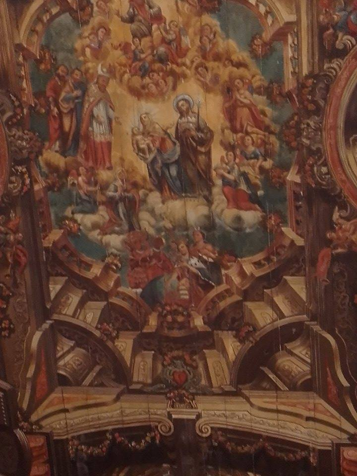 Italian illusionist painting on the church ceiling from the century XVIII